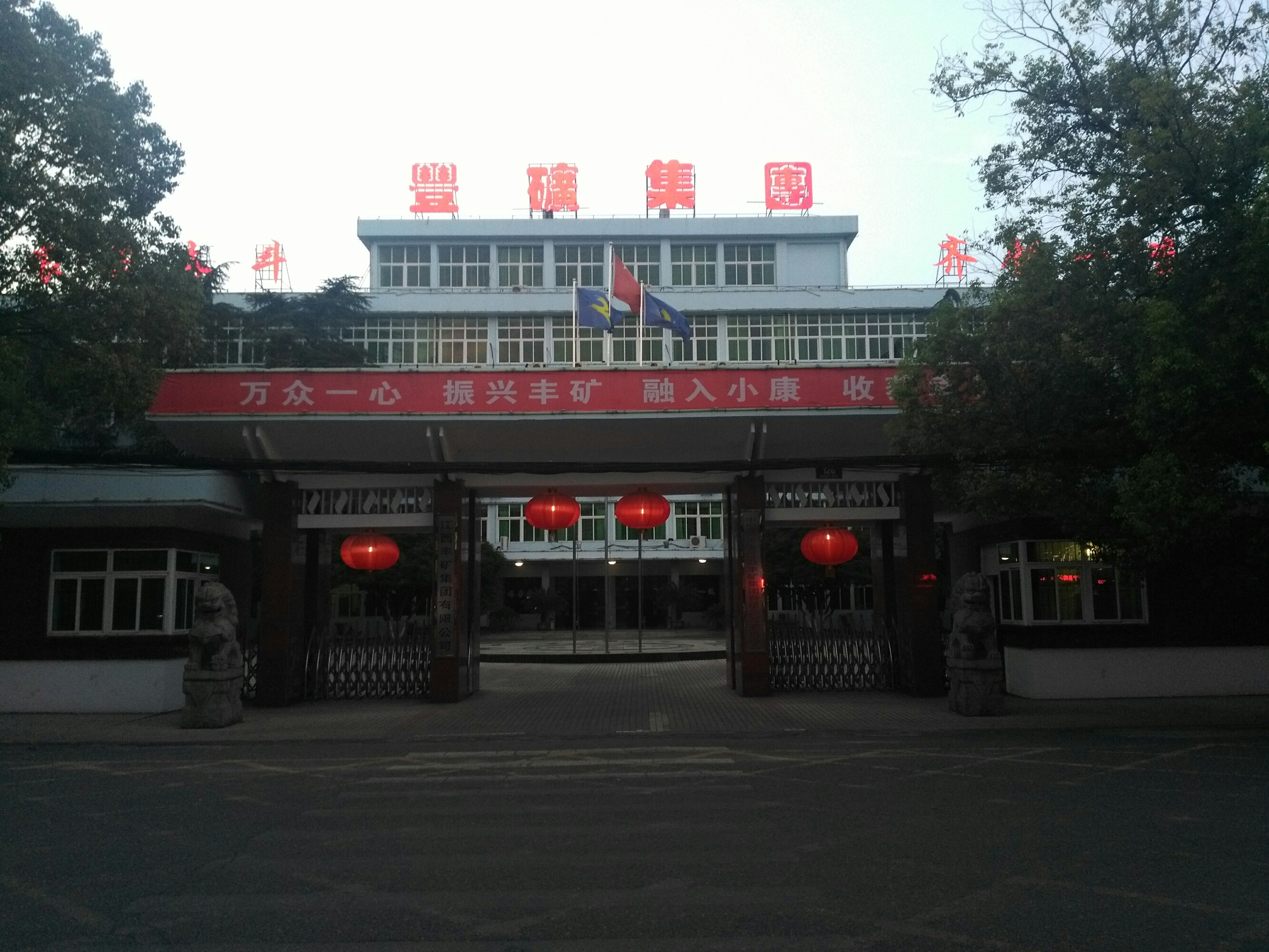 Fengkuang Group, Former Fengcheng Mining Bureau.